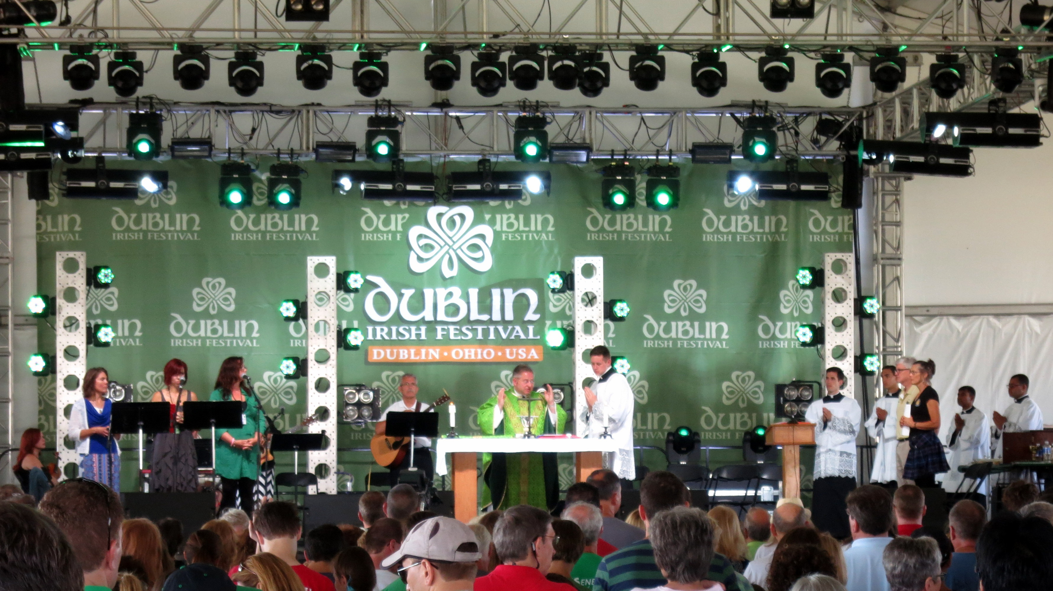 Dublin Irish Festival 2015 (Dublin, Ohio) - Catholic Mass